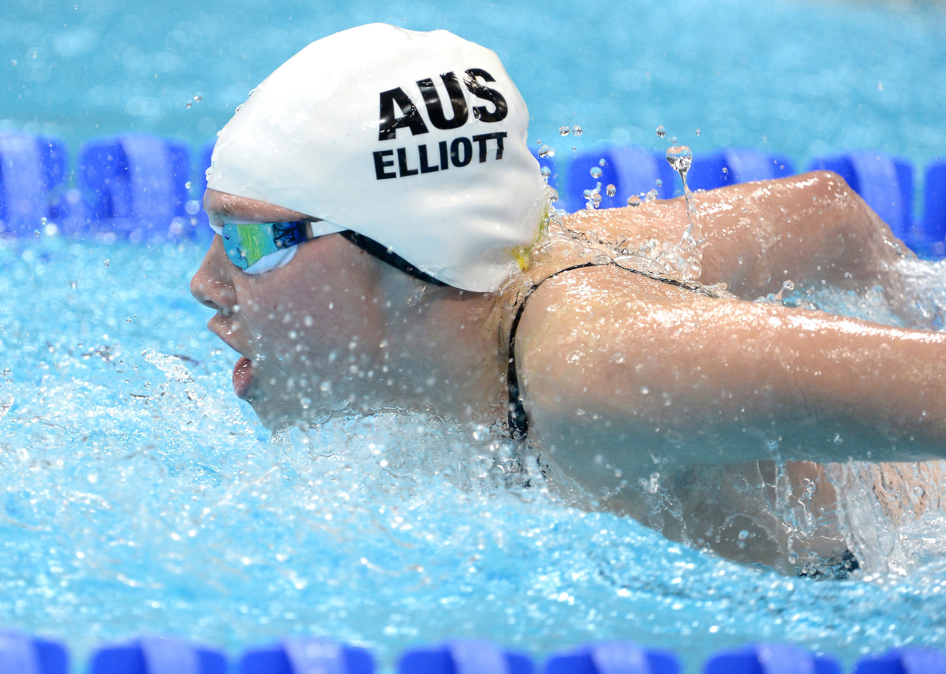 Photograph of Australian Paralympic team member Maddison Elliott at the 2012 Summer Paralympic Games in London